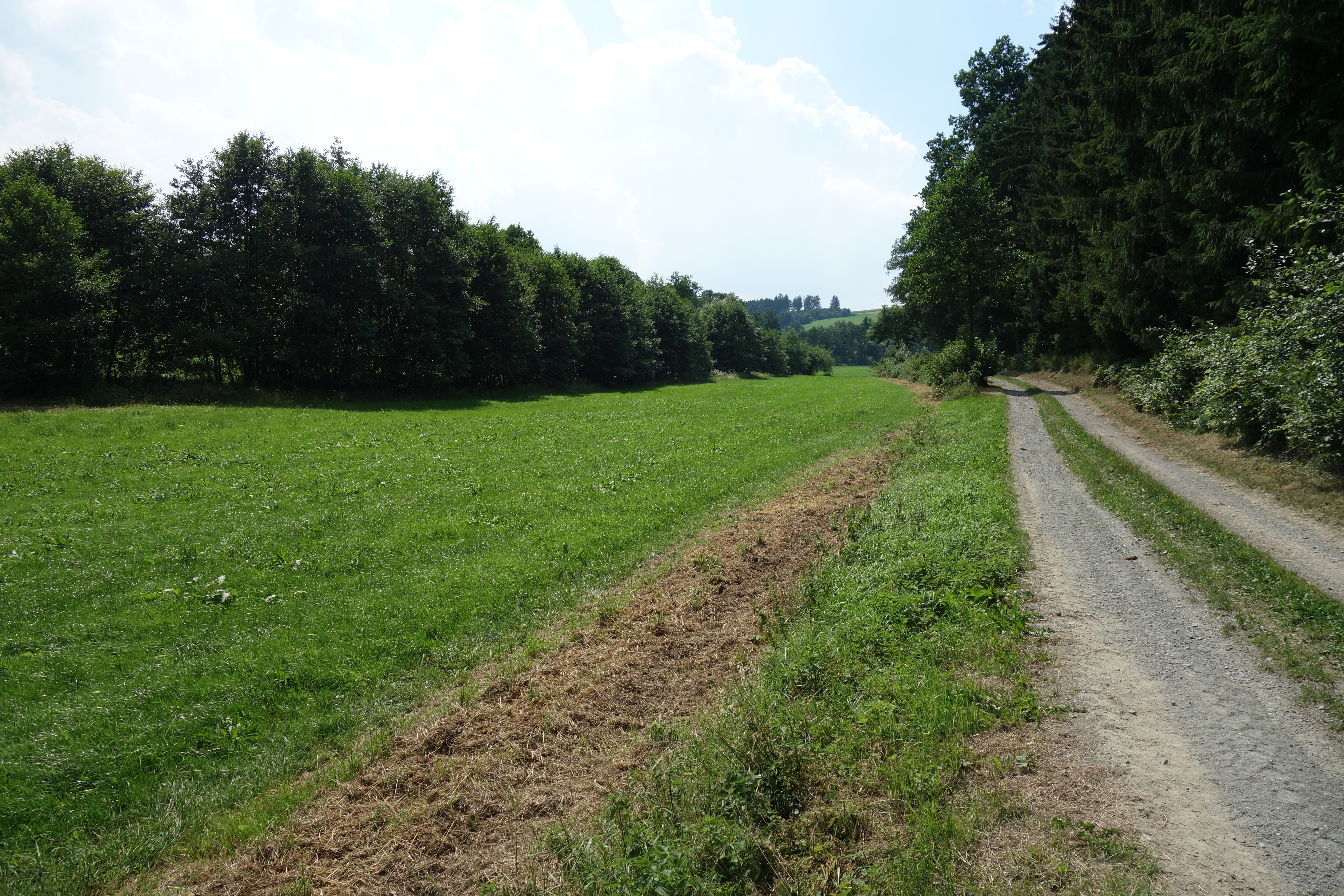 Landschaftsschutzgebiet Talsystem der Elpe (nördliche Bereich) im Elpetal.